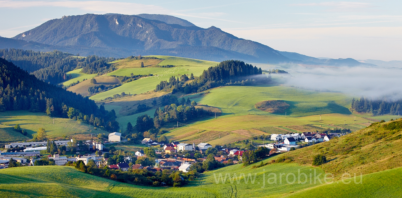 view from The North Side of Sklabiňa